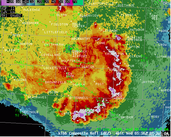 Radar image showing location of wake low high wind event. The high winds were in the vicinity of the lower radar returns near Tahoka.